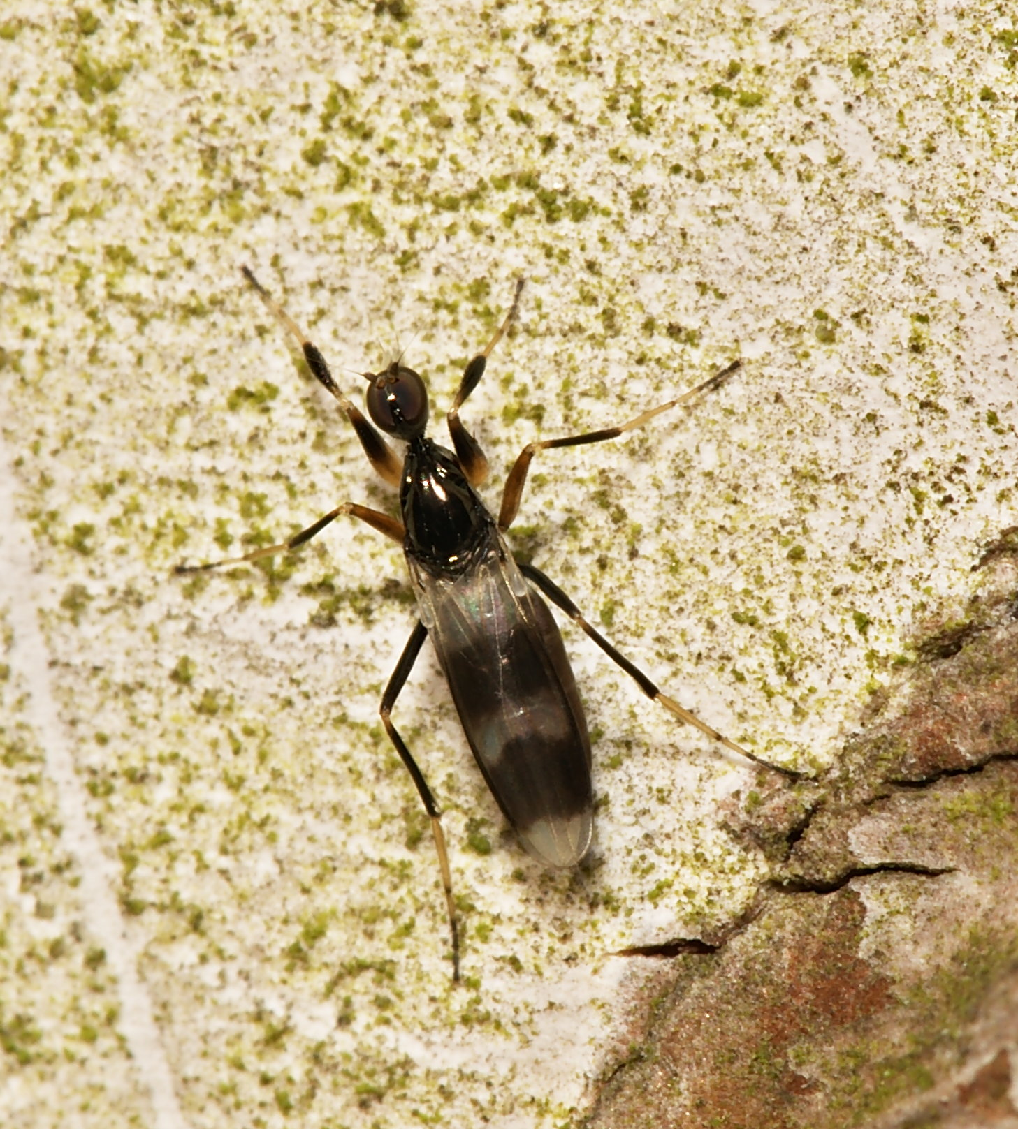 probably Tachydromia arrogans (Category:Hybotidae), from Nettersheim, Germany.